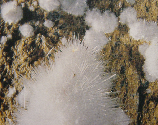 Hydromagnesite from Italy (Valle d'Aosta)